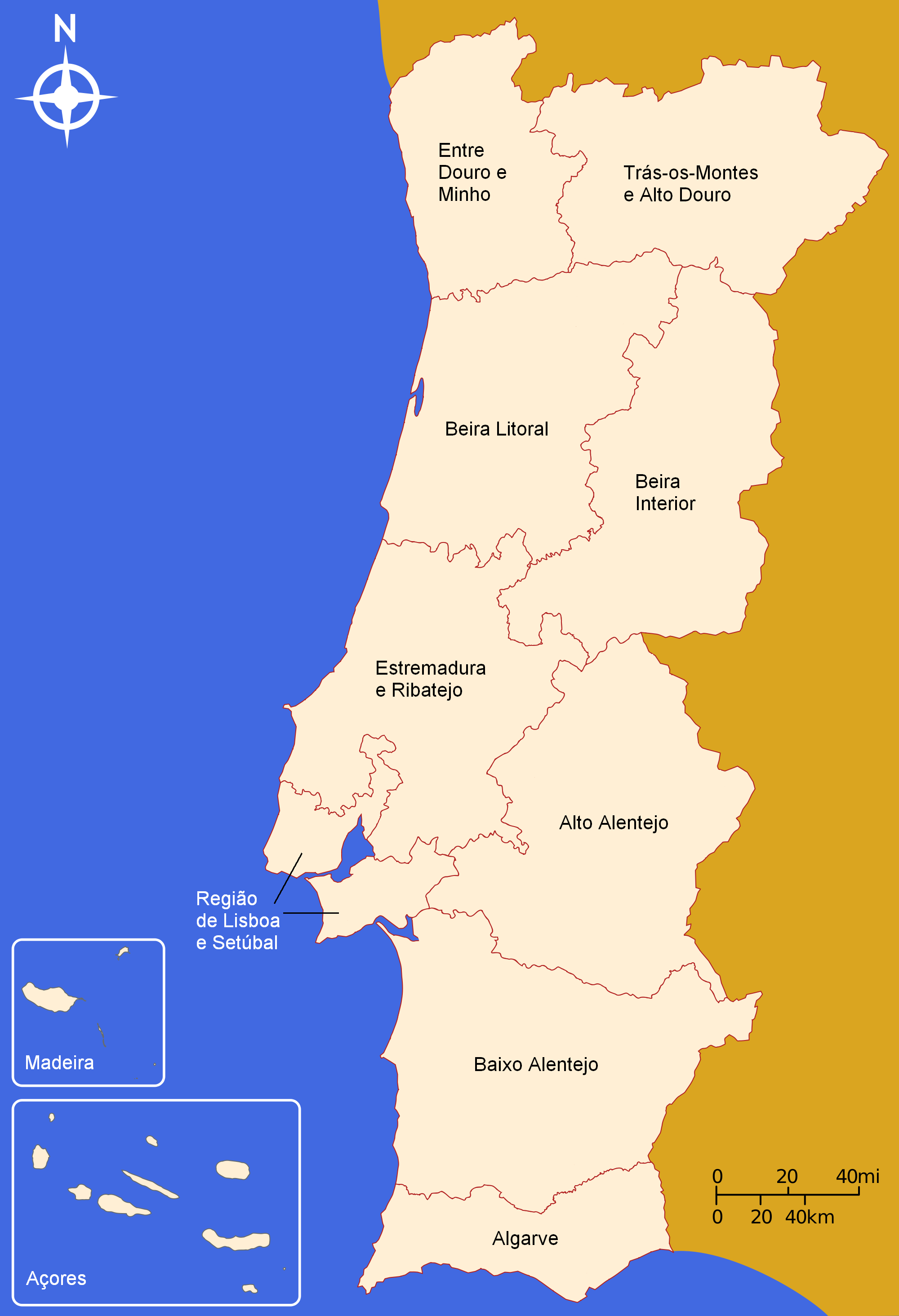 Proposal of 9 regions, suggested by the portuguese Socialist Party, in 1997, for the regionalization of mainland Portugal.